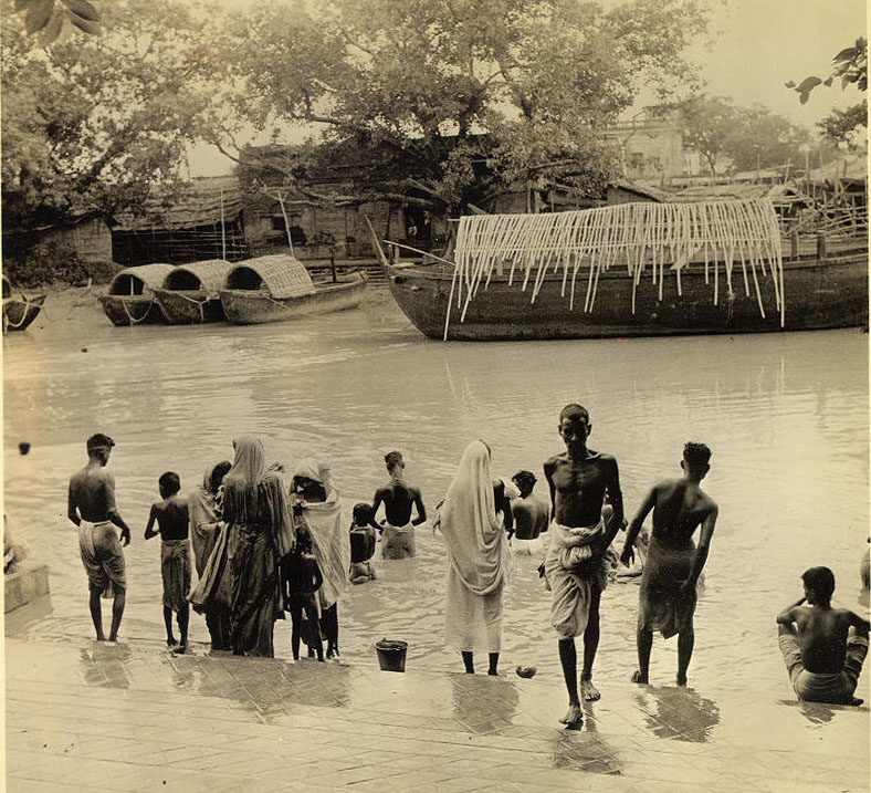 Hindus bathe in the holy water of a canal which was cut from the original bed of the Ganges. Steps lead down from the grounds of the Kalighat temple. Water is still considered holy, even though from the Hooghly.